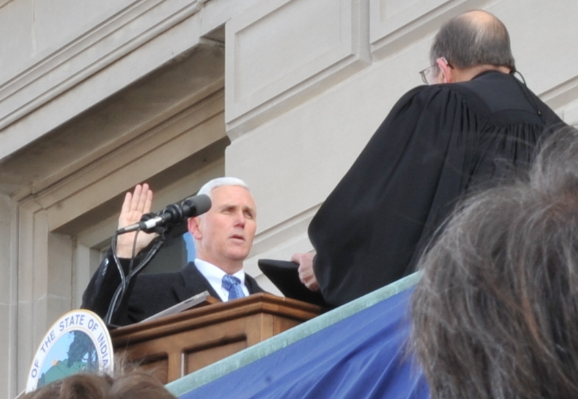 Indiana Adjutant General, Maj. Gen. R. Martin Umbarger, looks on as Gov. Mike Pence recites the oath of office at his inauguration ceremony at the Indiana Statehouse, Monday, Jan. 14, 2013. As governor of Indiana, Pence will serve as the commander in chief of the Indiana National Guard. Photo by Sgt. 1st Class Matt Scotten.